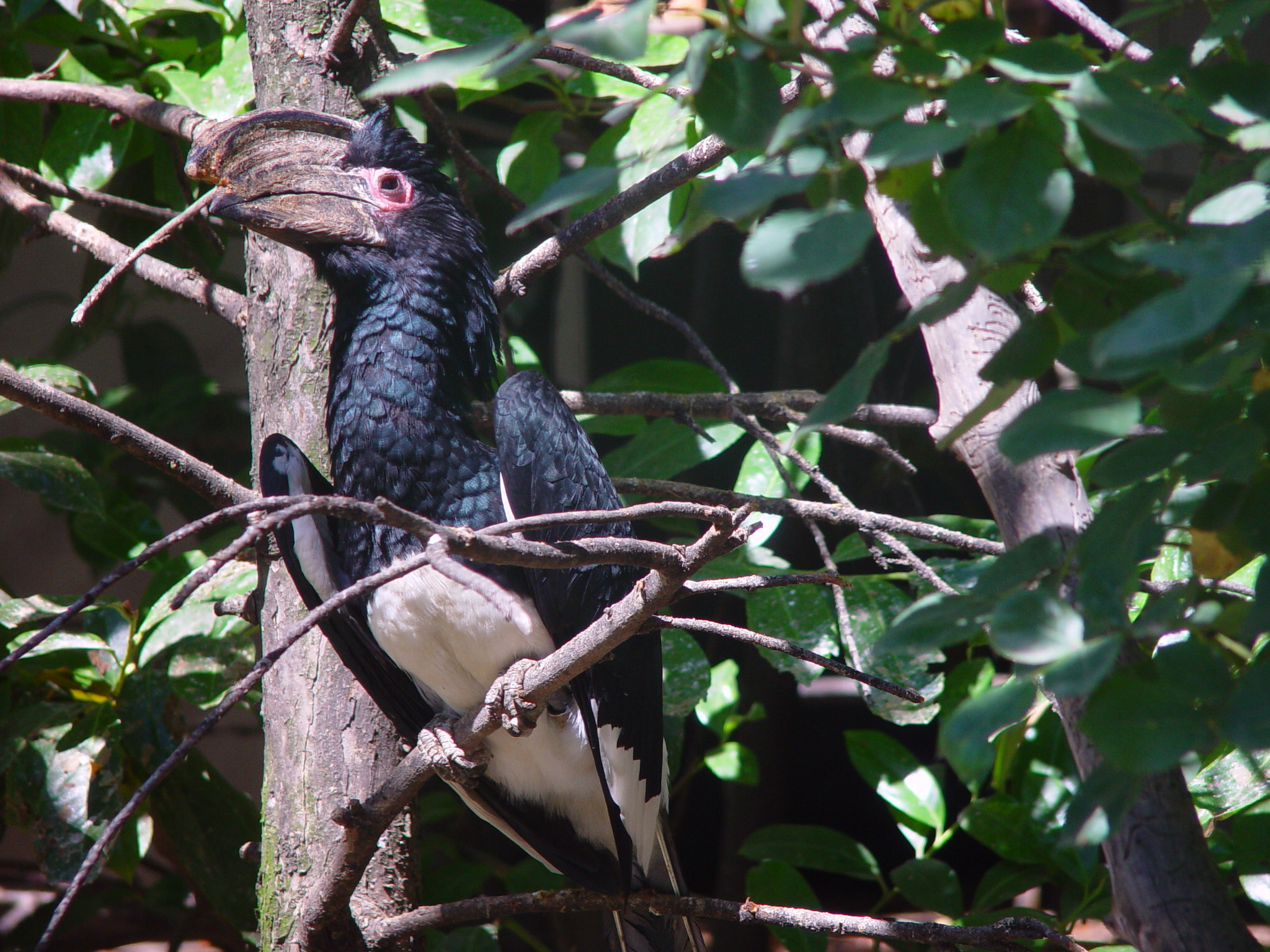 An adult male Trumpeter Hornbill at Bogazici Zoo, Turkey.